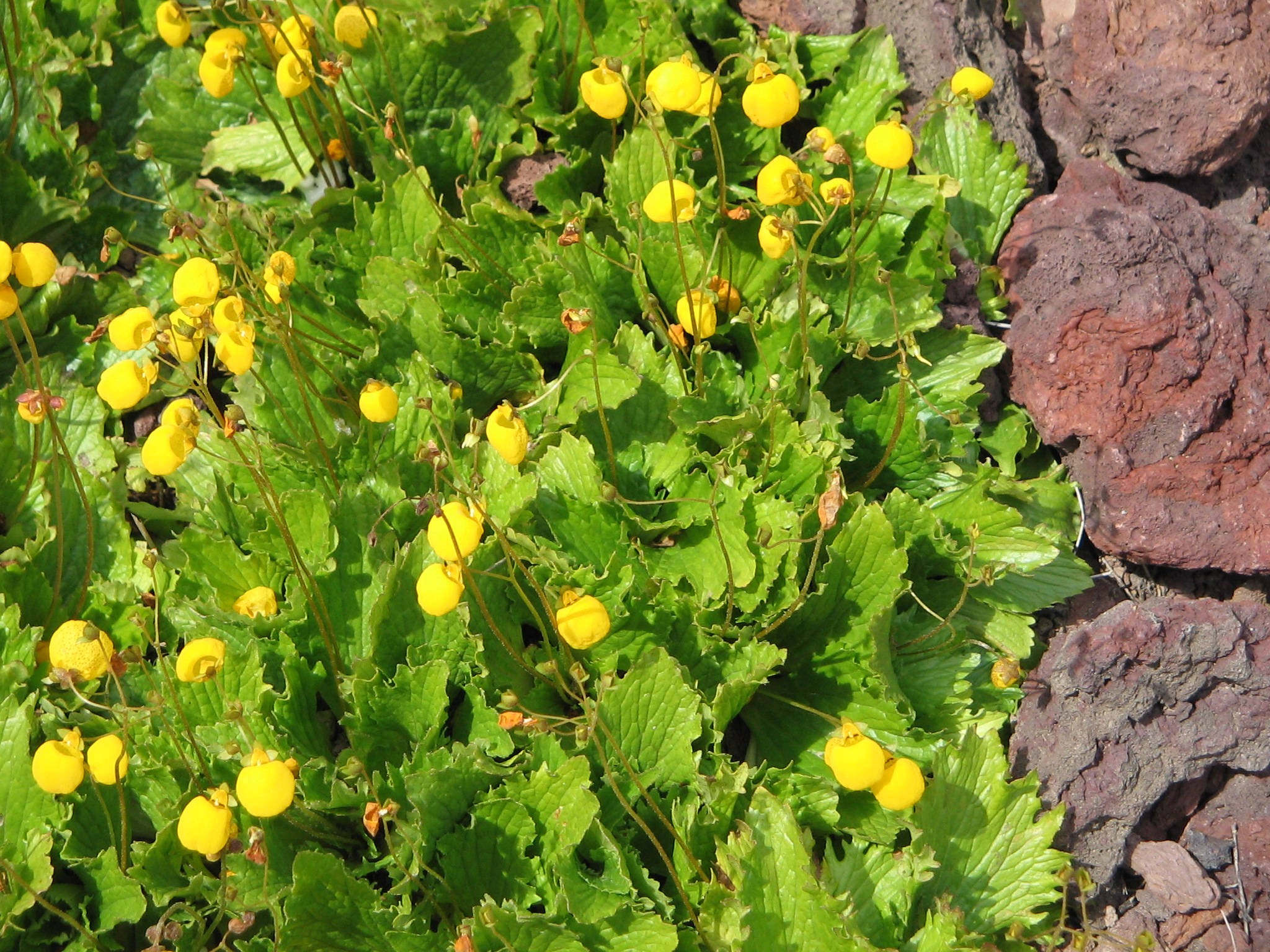 Calceolaria filicaulis